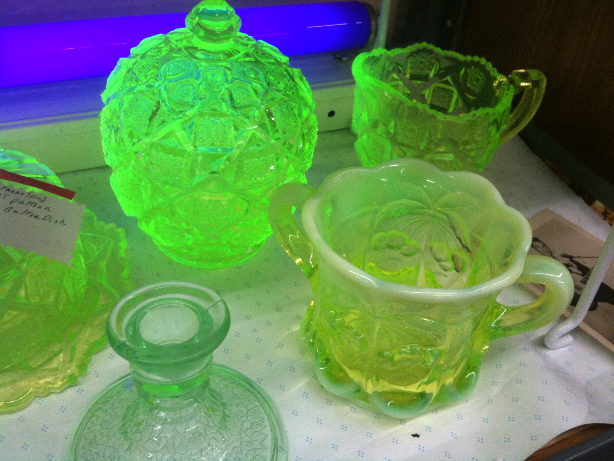 A collection of uranium glassware for sale at a Thrift store. Note the 'vaseline'-like appearance of the urn at the bottom right.